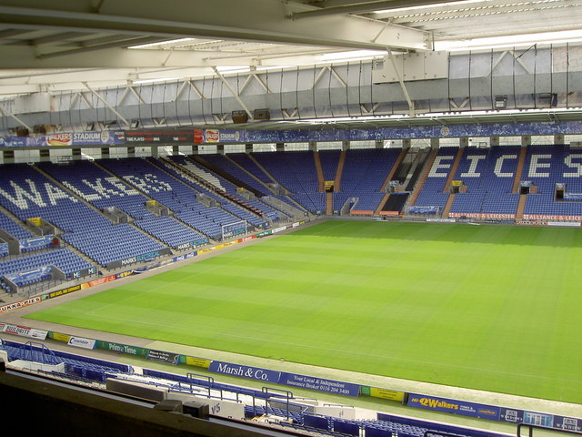 Inside Stadium, near to Leicester, Great Britain. Walkers Stadium